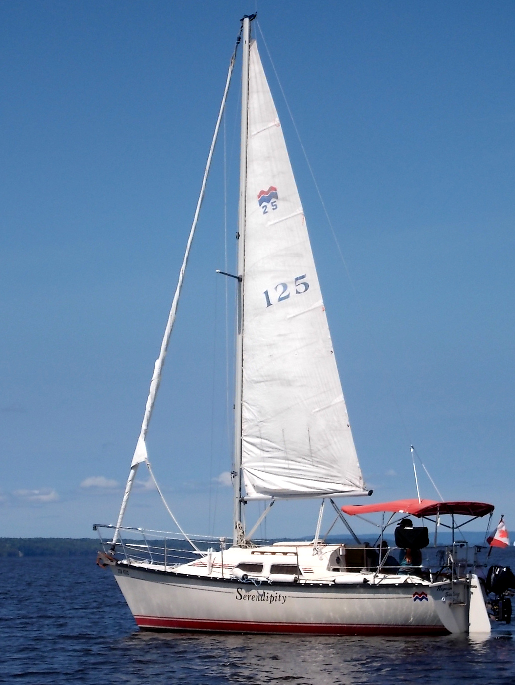 Mirage 25 sailboat, Serendipity, on Lac Deschênes, part of the Ottawa River, Ottawa, Ontario, Canada